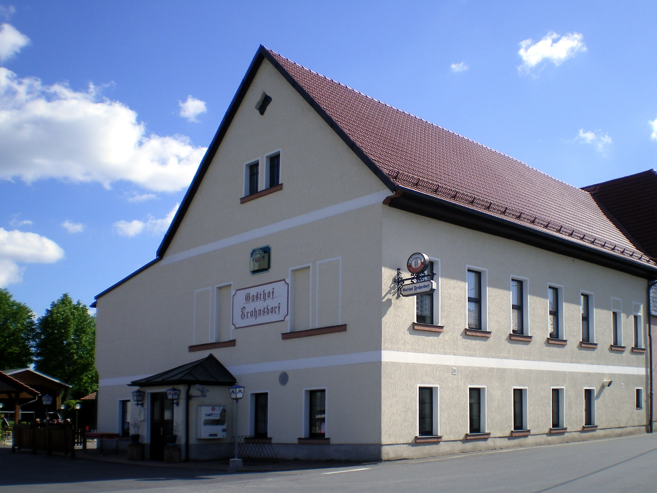 Guesthouse in Frohnsdorf near Altenburg/Thuringia